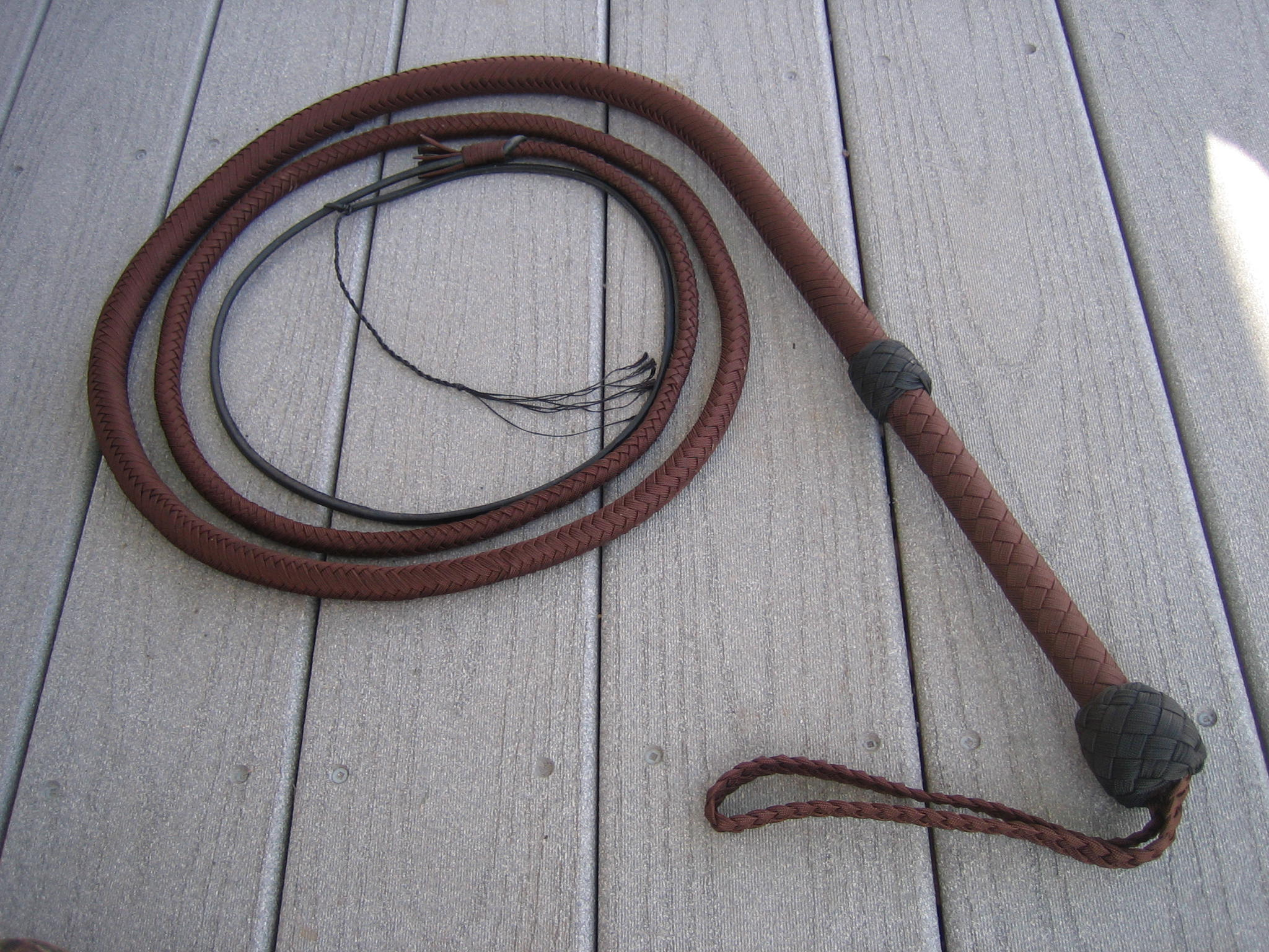 A bullwhip constructed of nylon paracord with the inner strands removed. By removing the inner strands, the paracord acts more as lace, allowing it to lay flat and to plait (braid) bullwhips such as this one pictured. This whip is constructed with a 16 plait overlay, built in an Indiana Jones style theme. Whip is constructed by Noreast Whips.